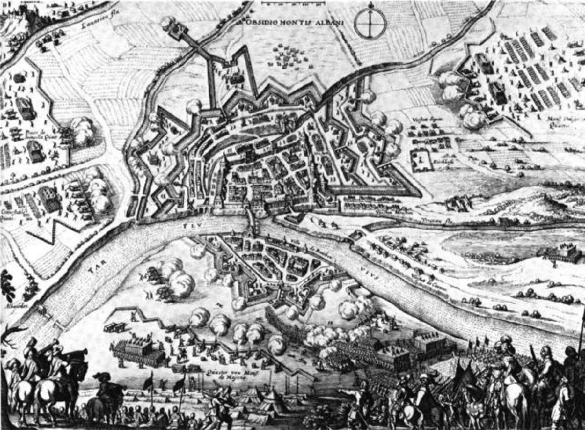 Siege_of_Montauban_1621_Merian_1646